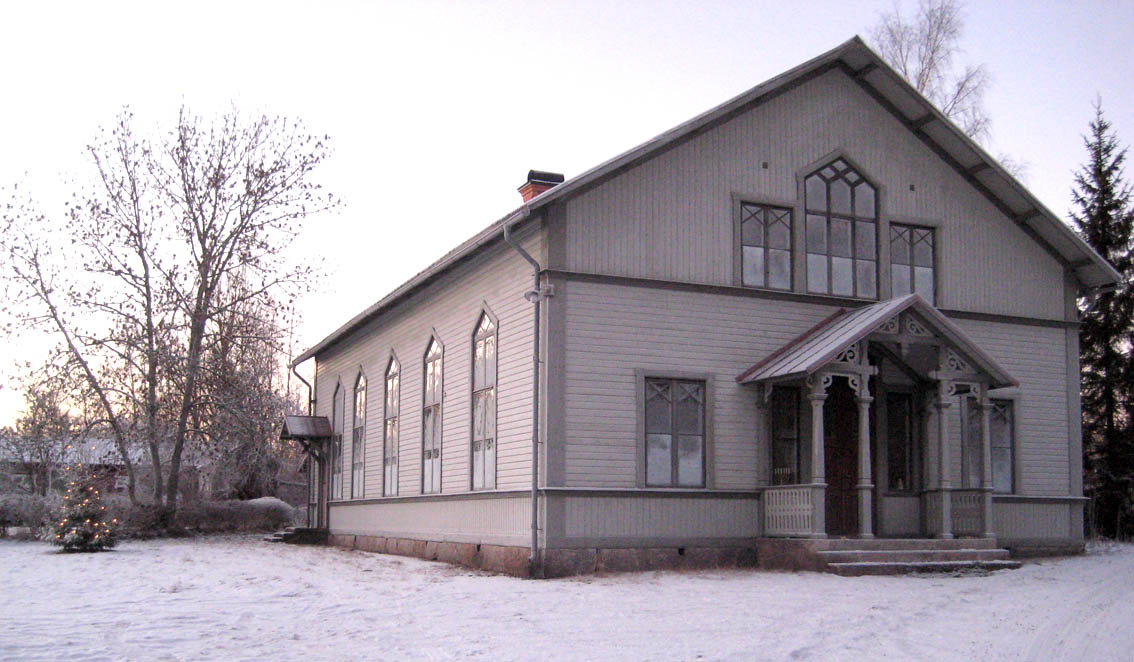 Mattön Chapel, Gysinge, Gästrikland, Sweden